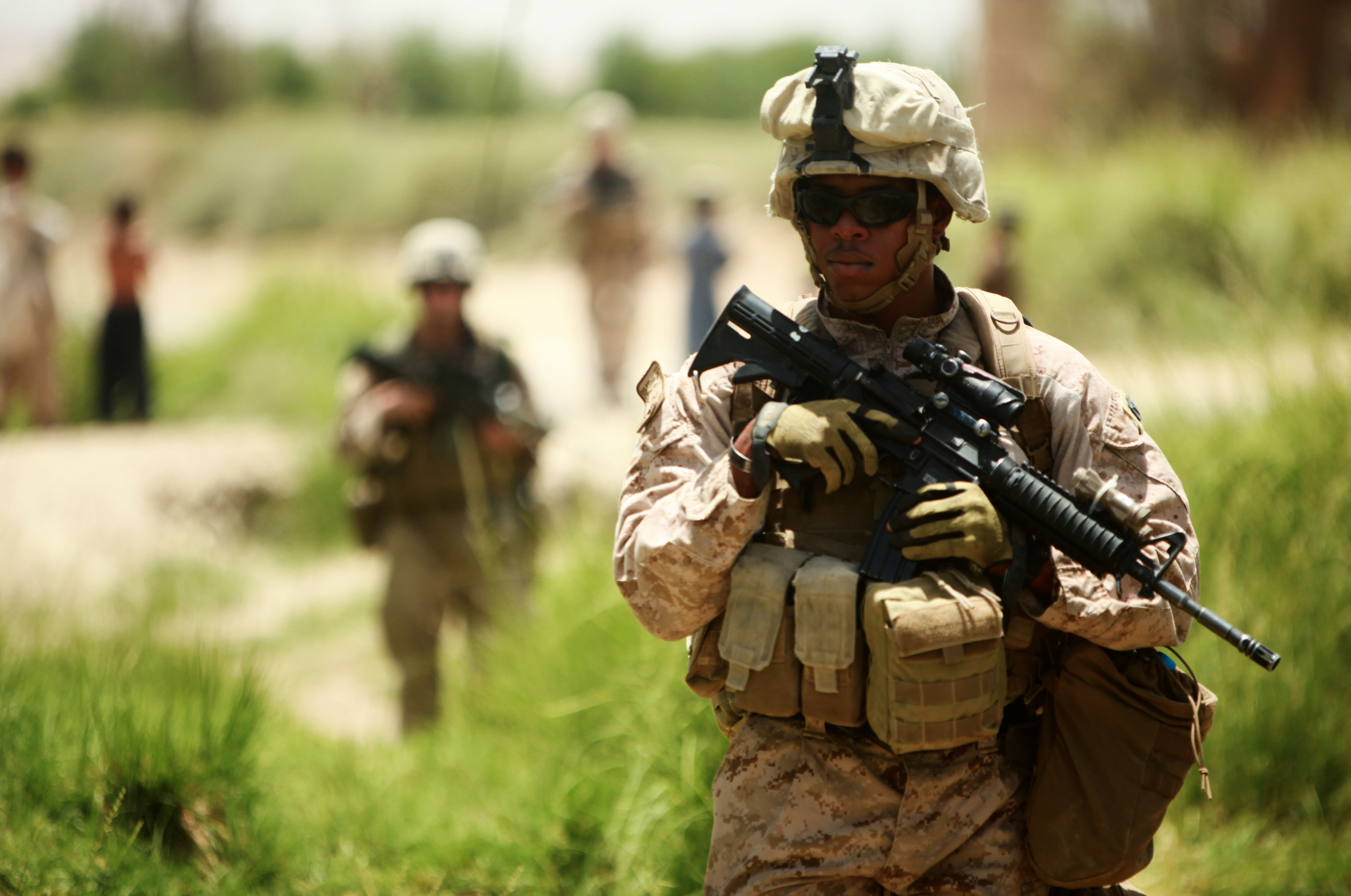 U.S. Navy Petty Officer 3rd Class Damin Bertrand, with Delta Company, 2nd Light Armored Reconnaissance Battalion, conducts a patrol in Khan Neshin, Afghanistan, on June 6, 2011.